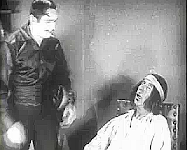 Douglas Fairbanks (left) and Tote Du Crow (right) in the American adventure romance film The Mark Of Zorro (1920).